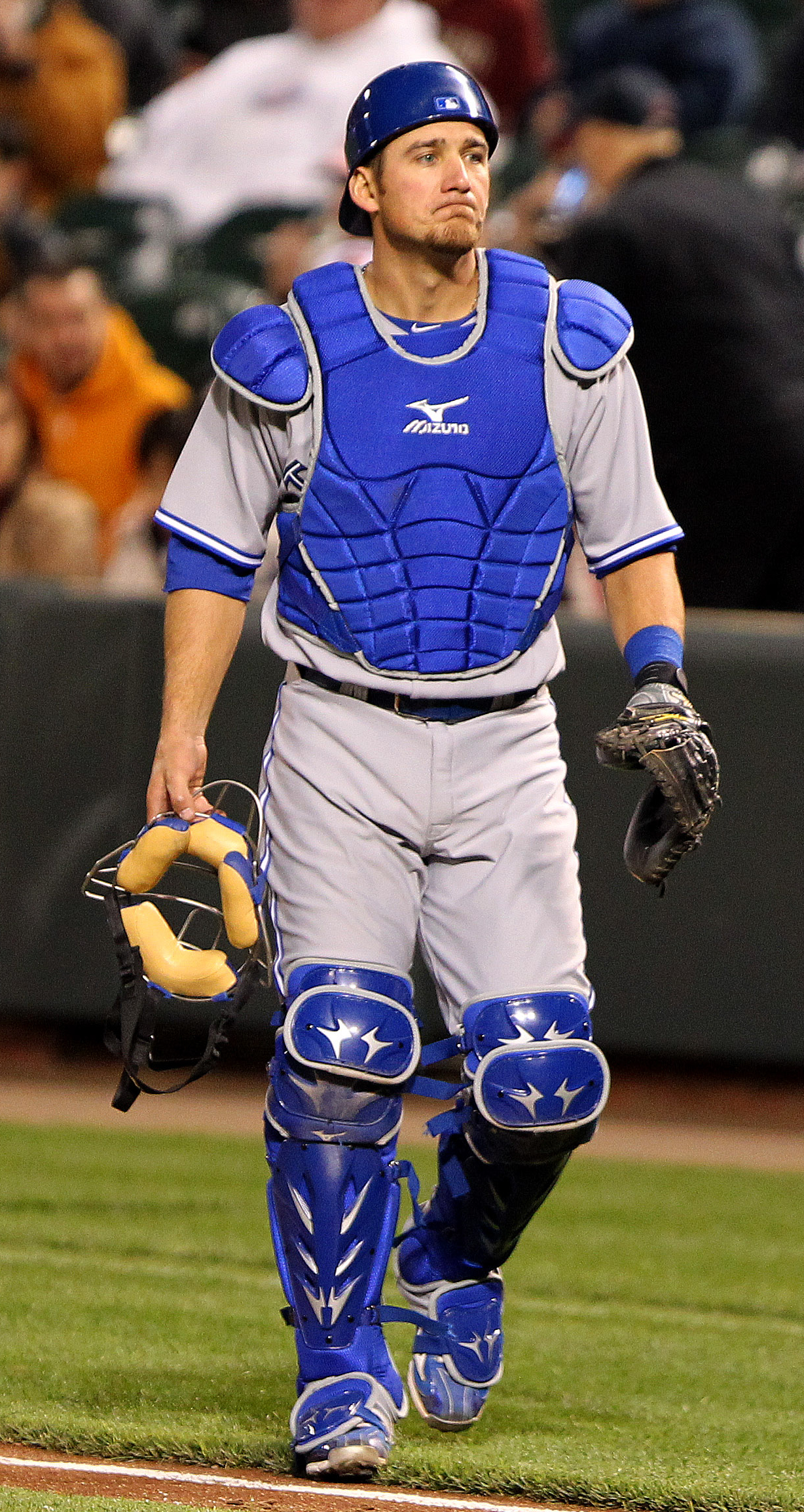 Jeff Mathis